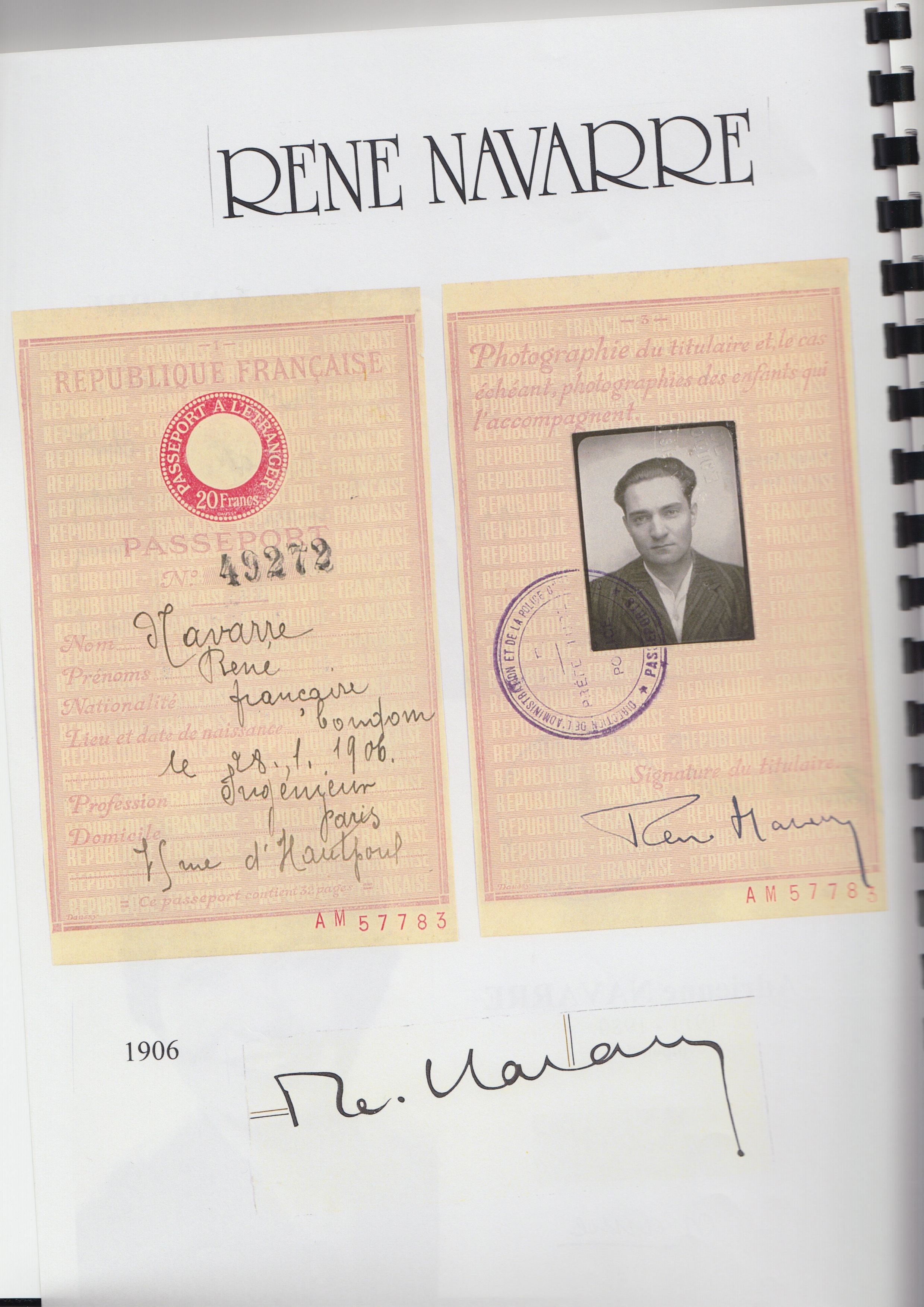 René Navarre’s passport